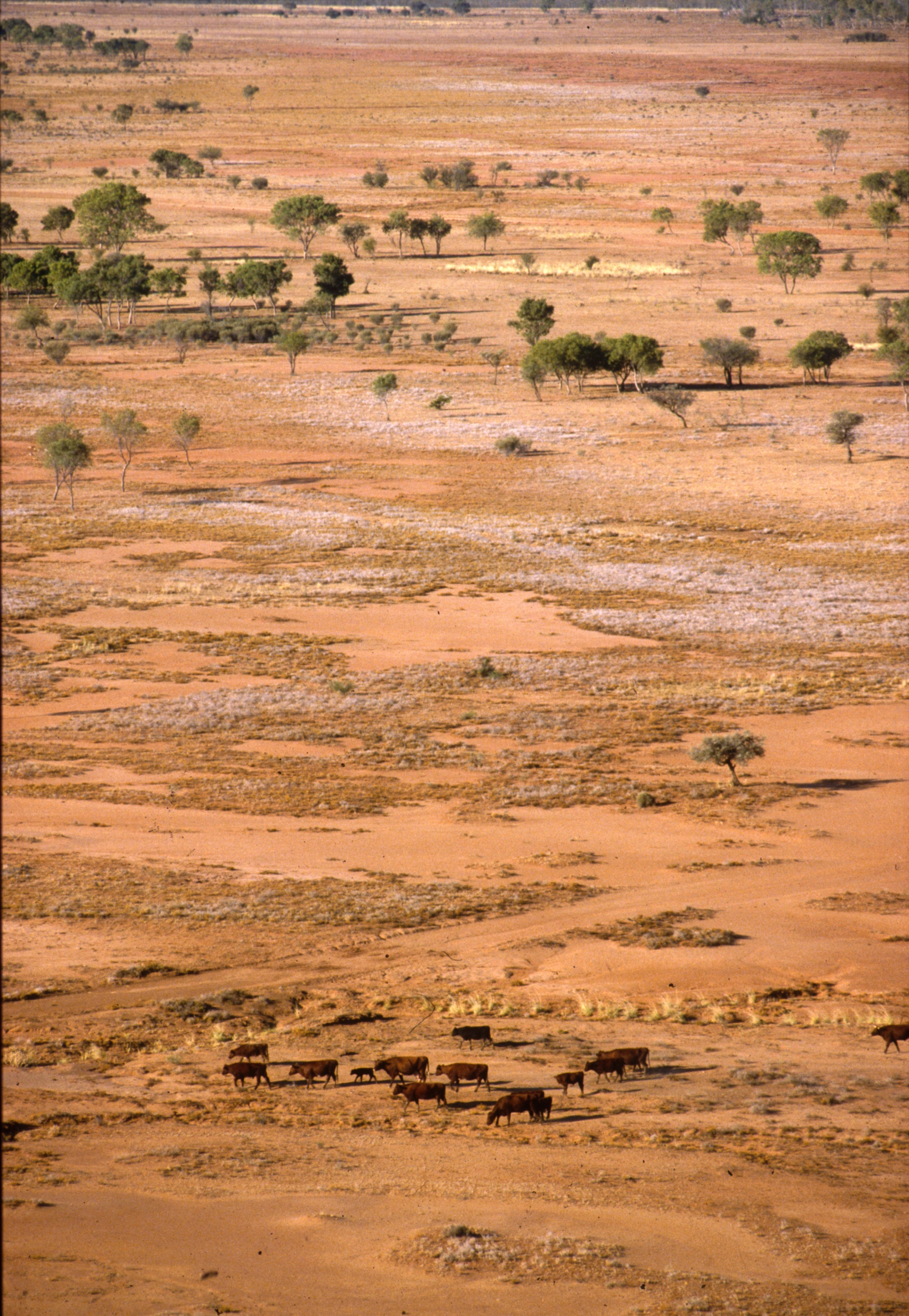 High angle view of a small herd of cattle in dry landscape, north of Alice Springs, Northern Territory. November 1989. Photo credit: Robert Kerton